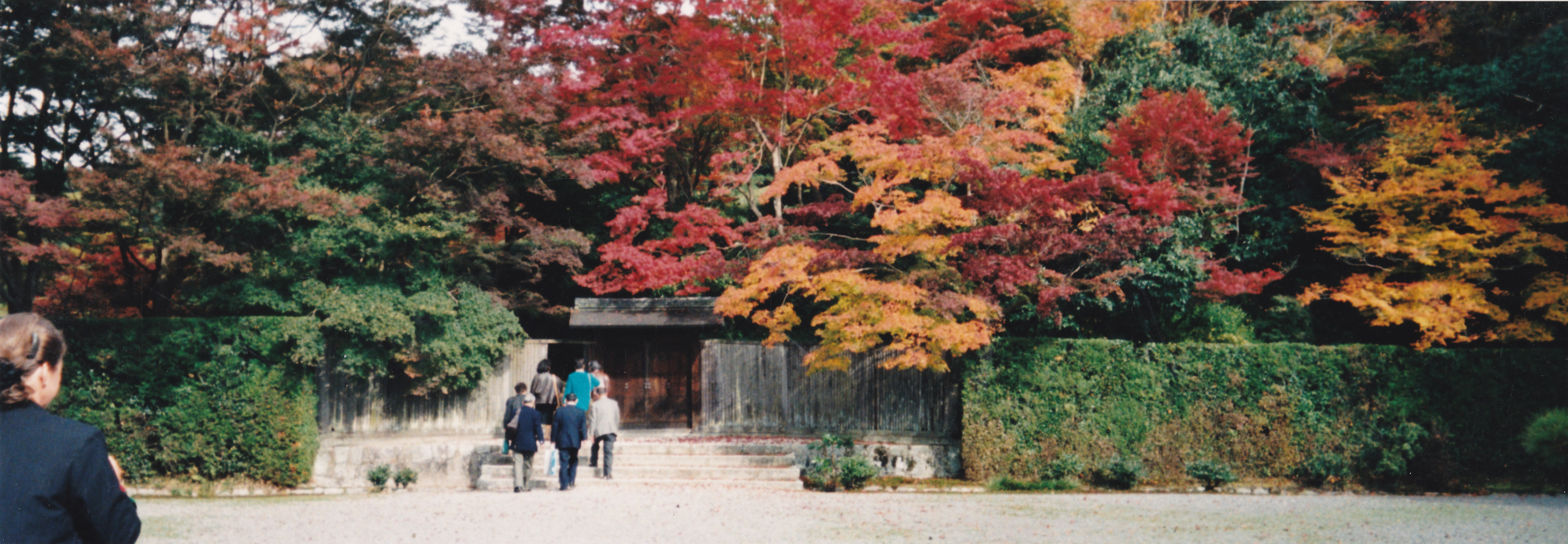 gate at Shugakuin, Kyoto